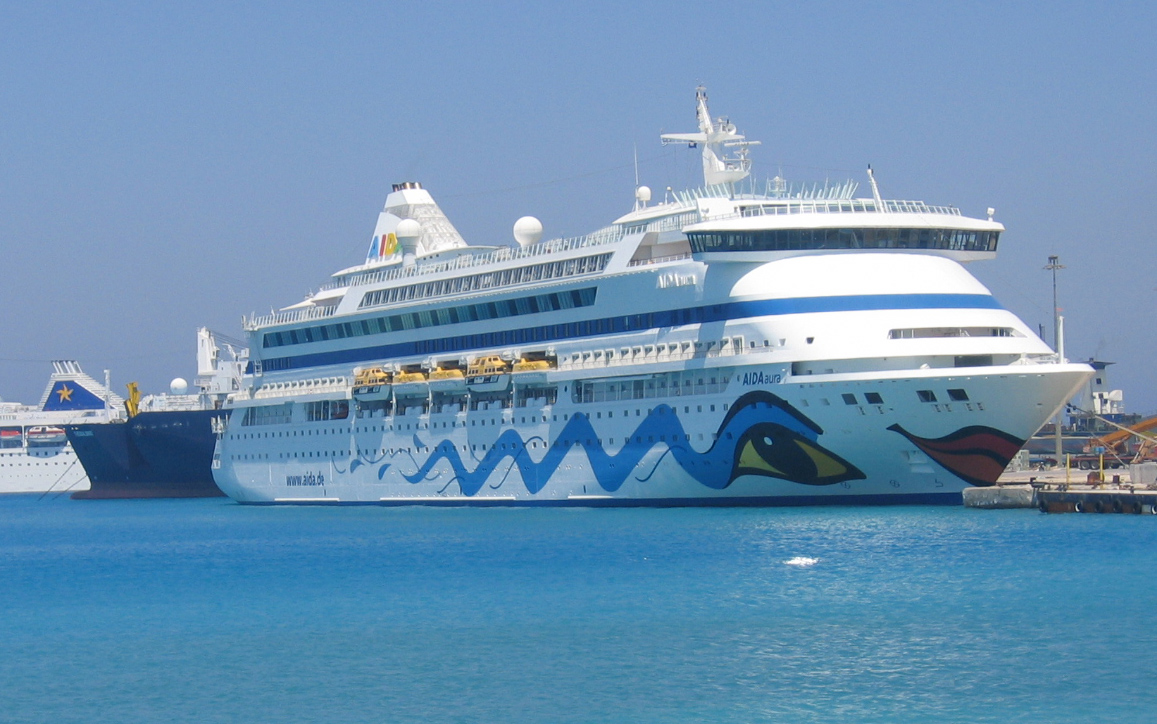 Cruise ship AIDAaura in Rhodes